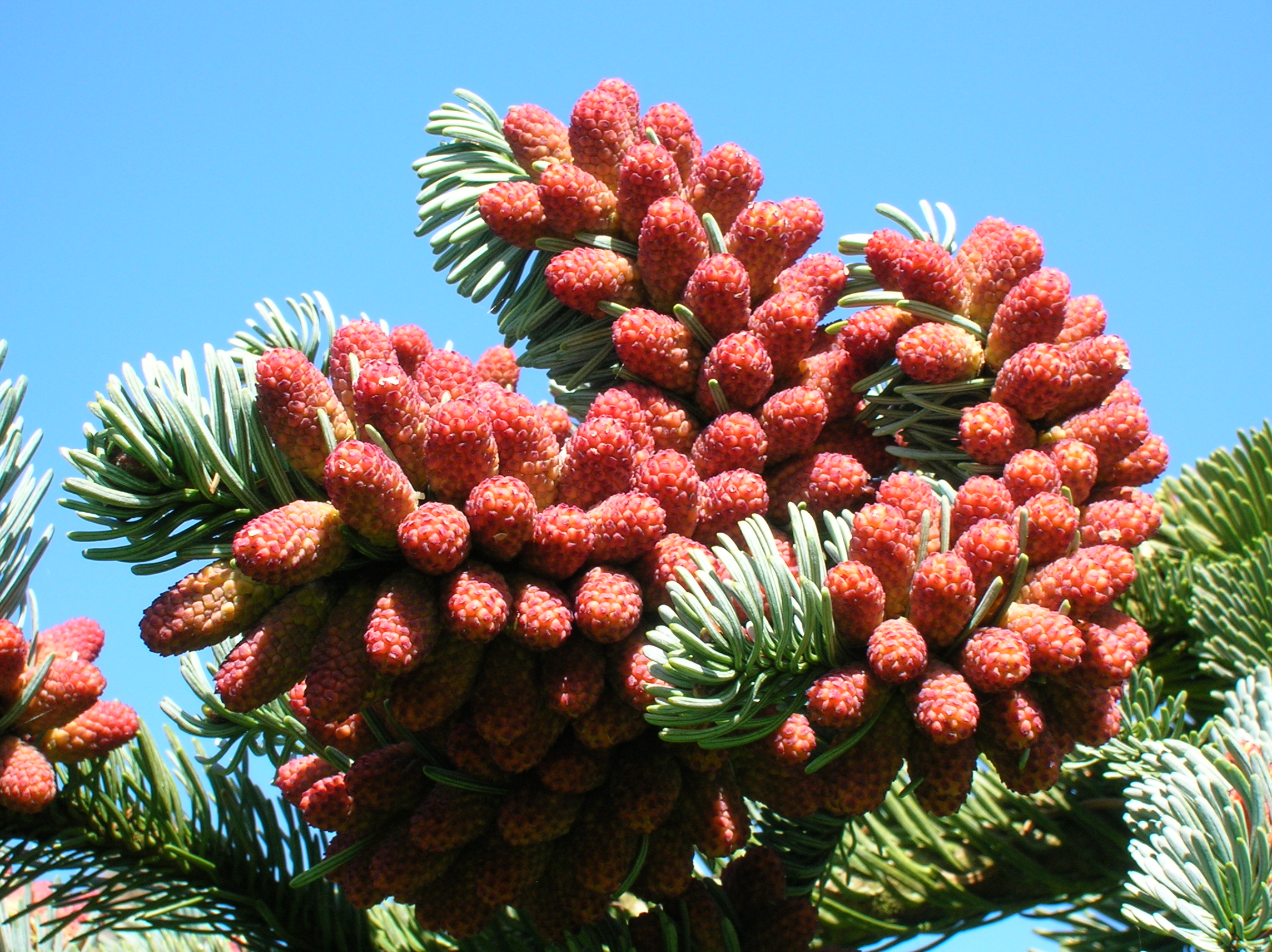 Male pollen cones of a Noble Fir Abies procera. Dean Country Park, Kilmarnock, East Ayrshire, Scotland.